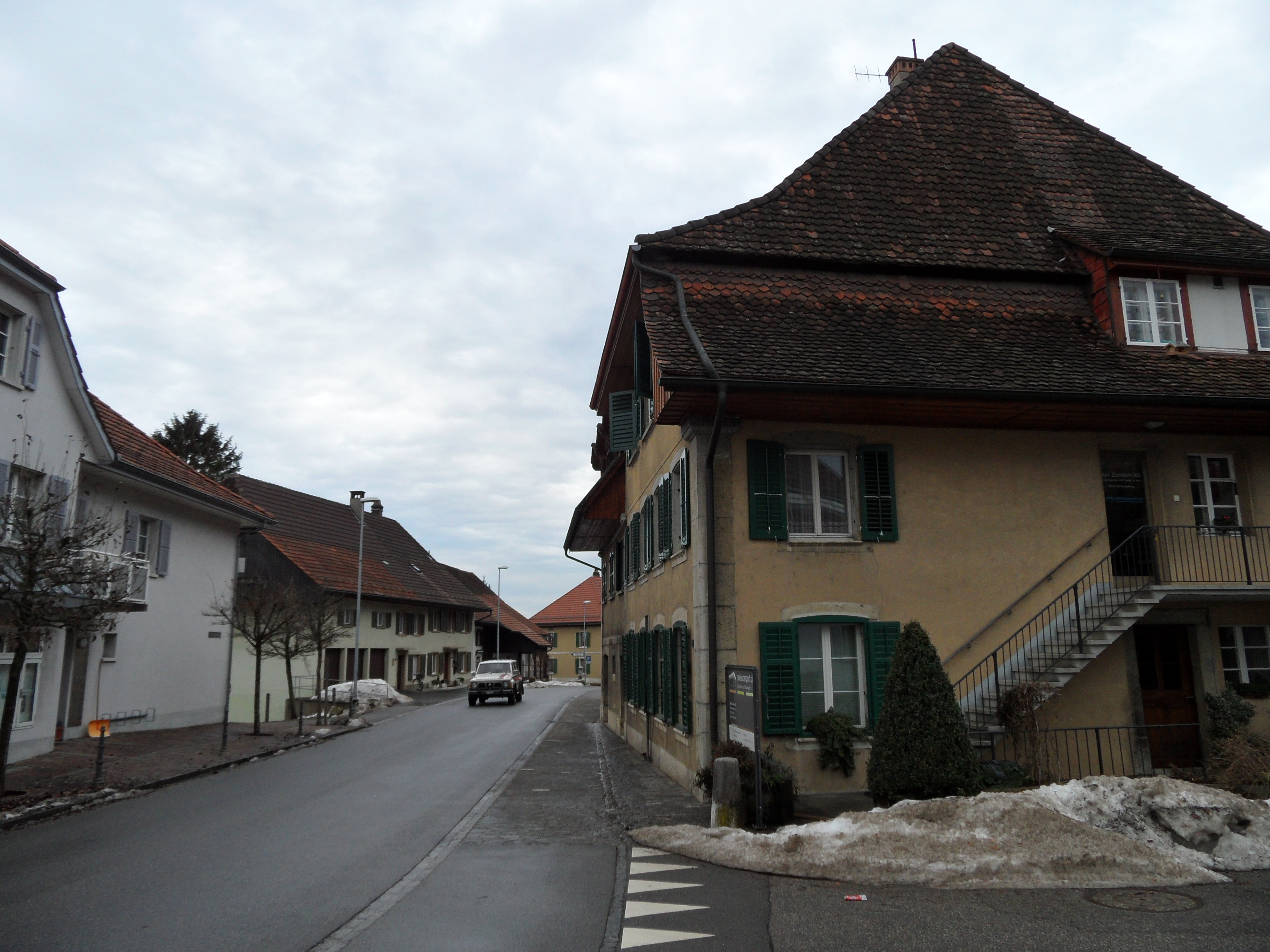 Thoroughfare in Attiswil, canton of Bern, Switzerland.